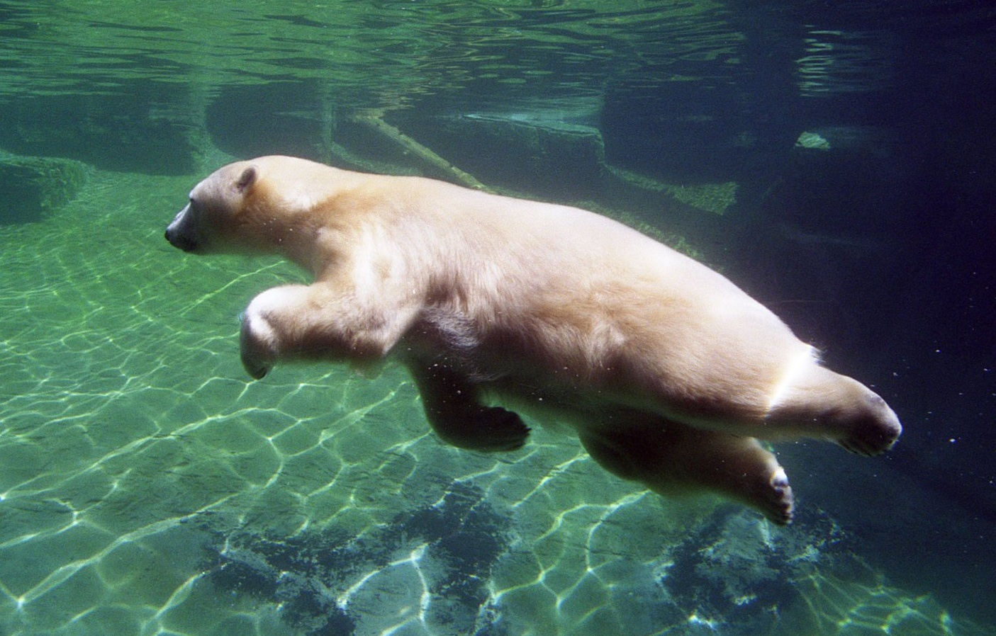 A polar bear swimming at San Diego Zoo, Calilfornia, USA.